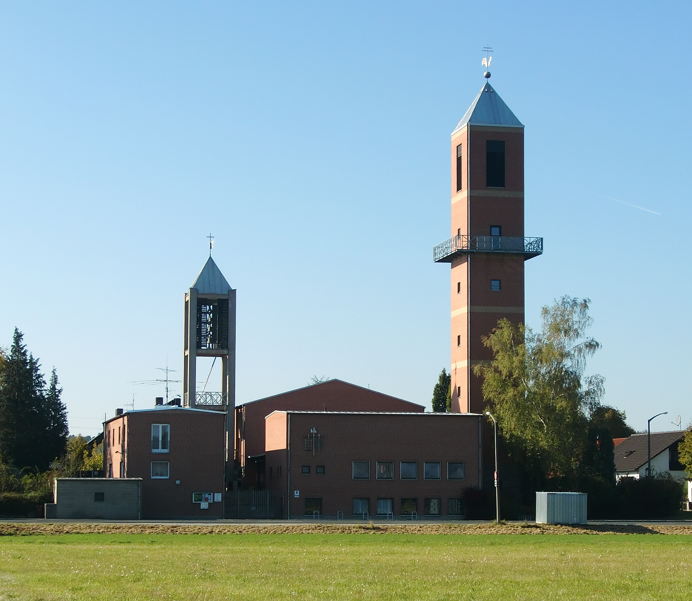 St.-Laurentius-Kirche Möhrendorf